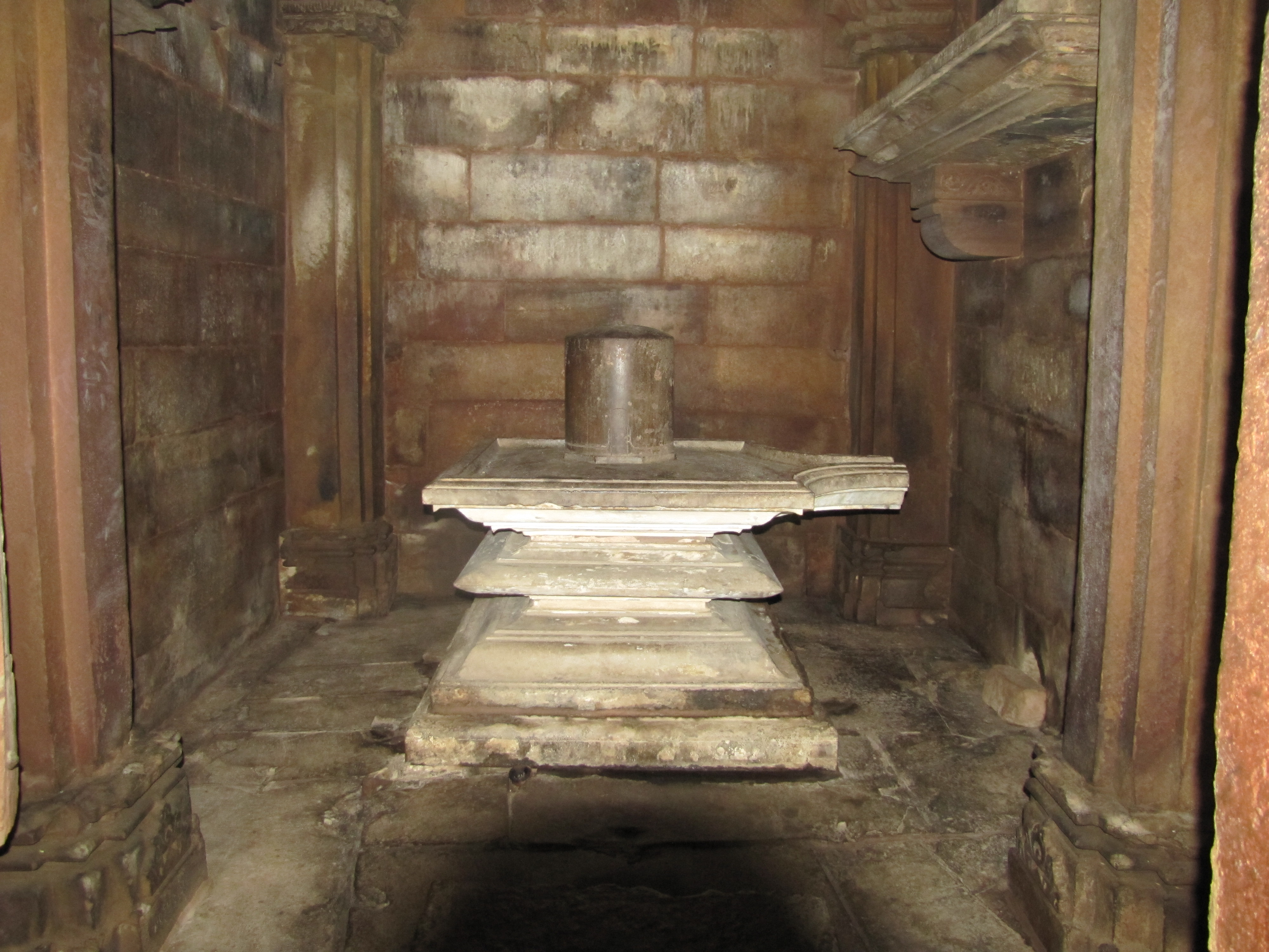 Khajuraho India, Vishwanath Temple, Main Idol (Shiva) - 02